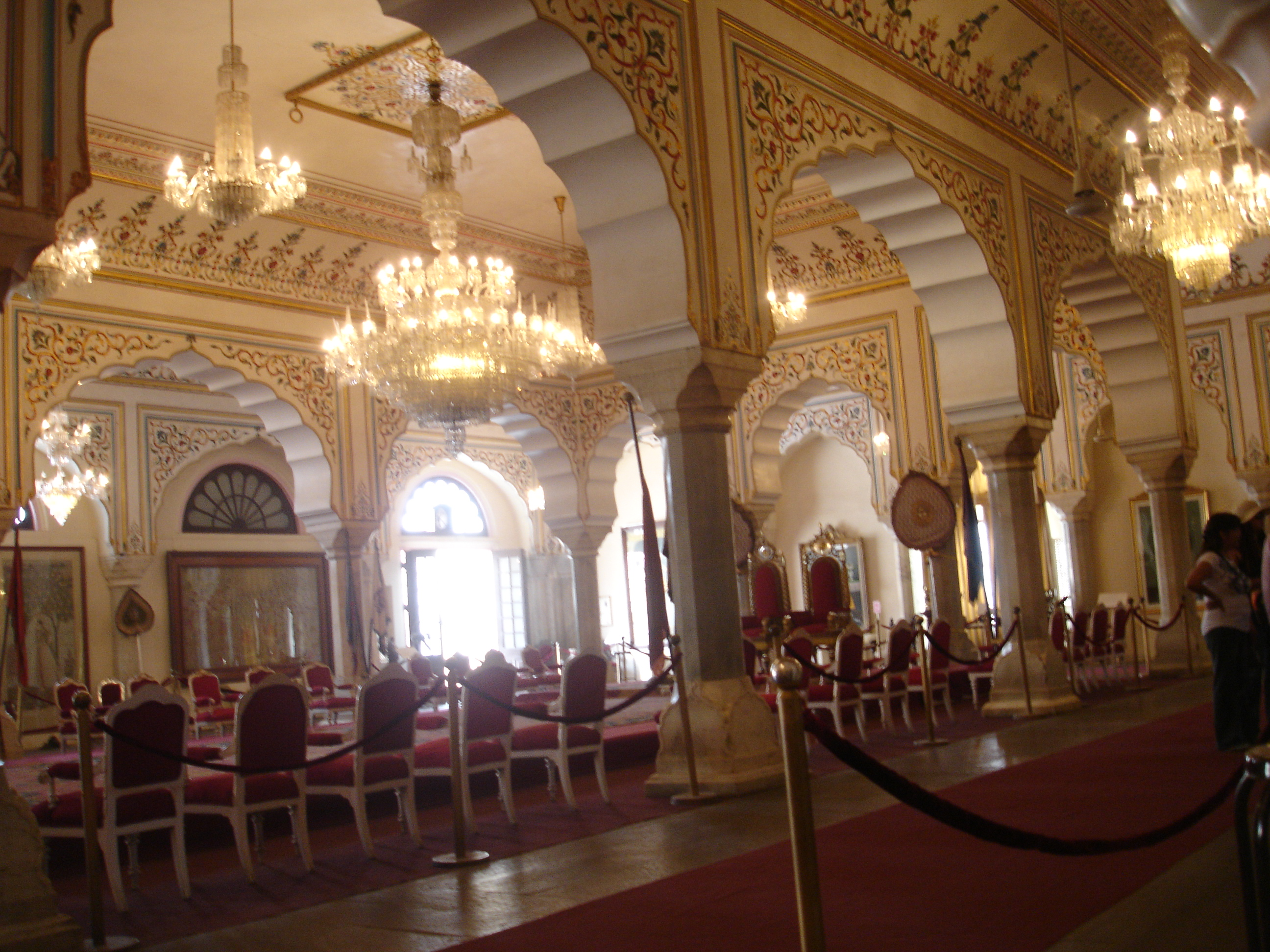 Sabha Niwas in City Palace. It is a meeting hall of king, queen and ministers.